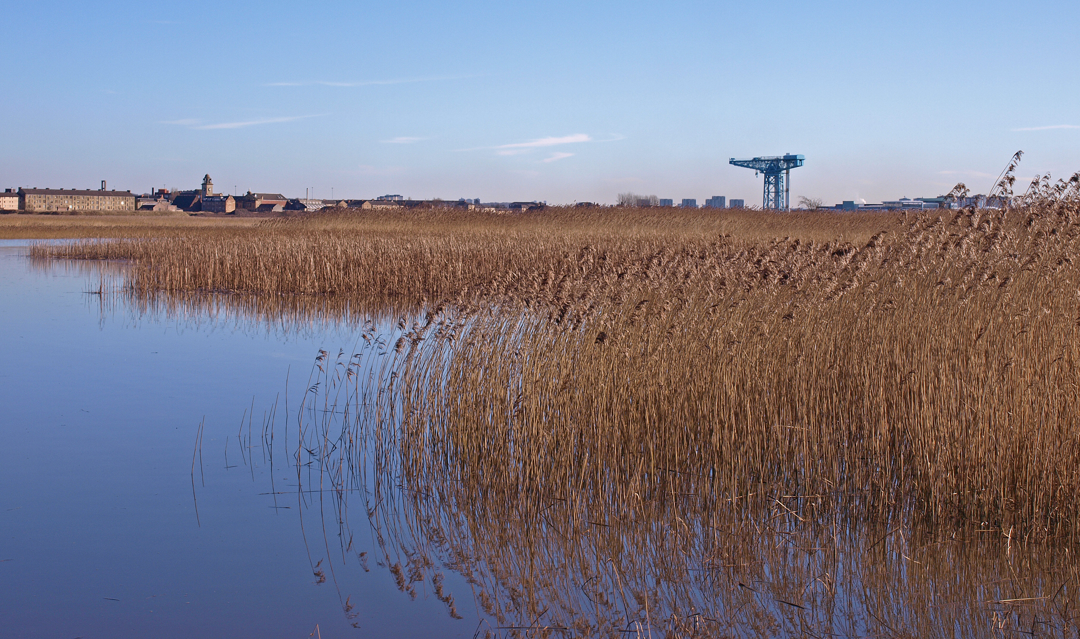 Reeds at Newshot Island, River Clyde Clydebank's Titan Crane in the distance.